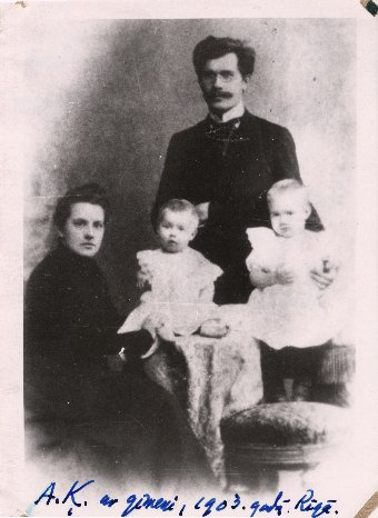 Anna Rūmane-Ķeniņa with family